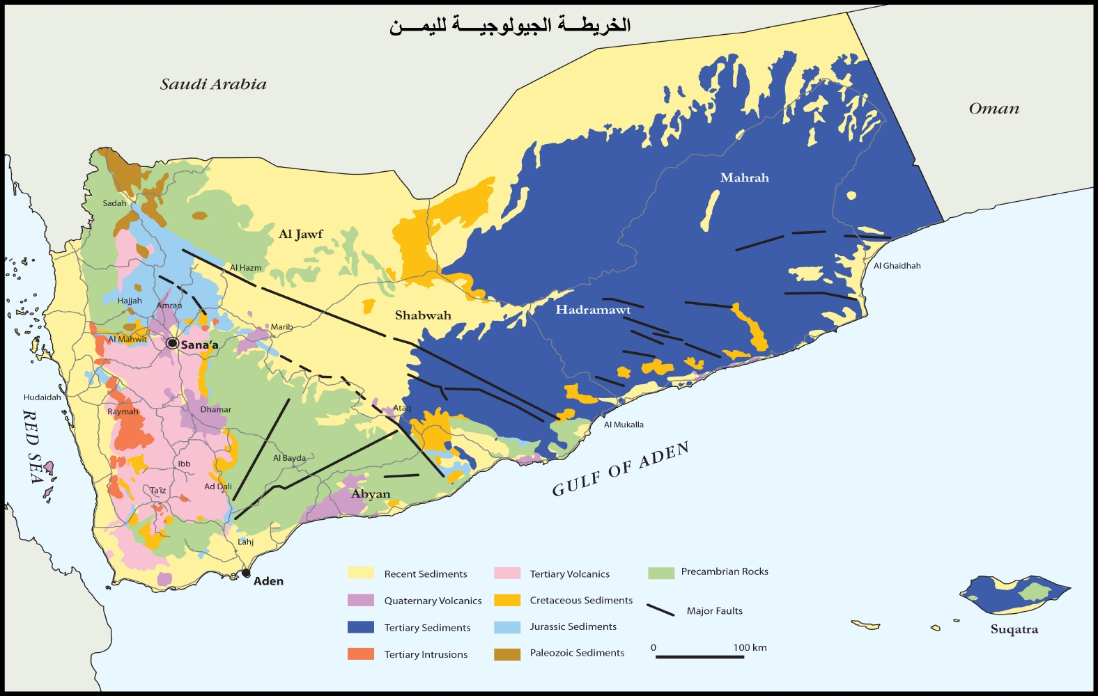 Geological Sketchmap Yemen